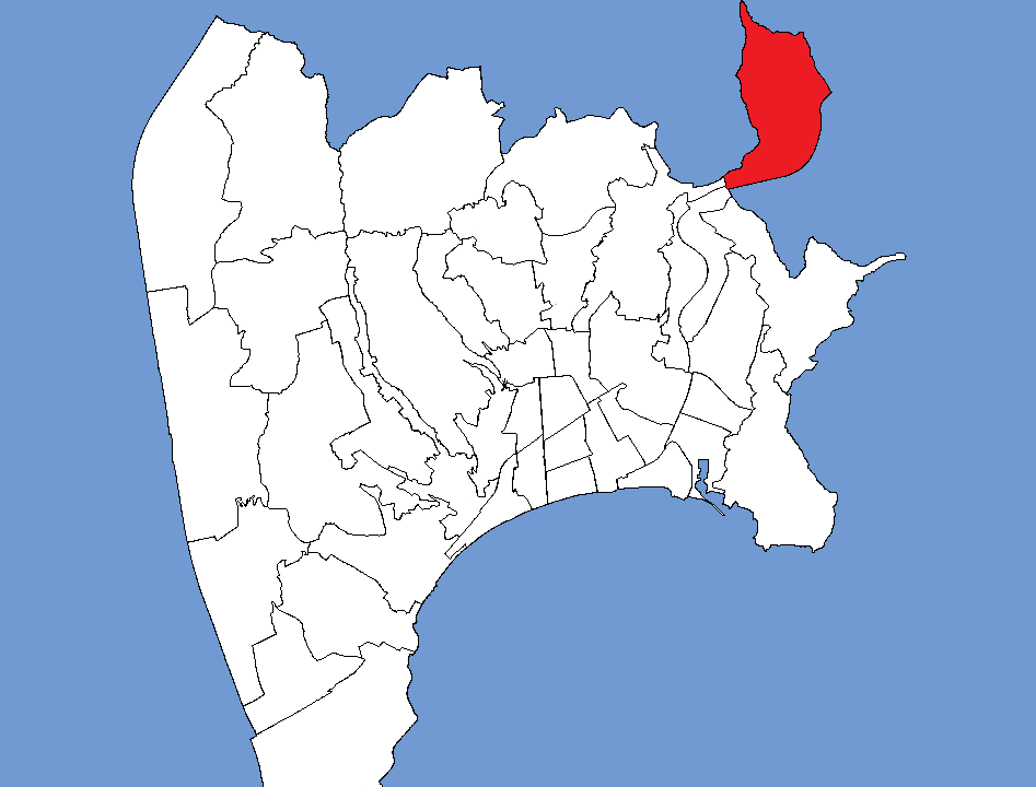 Location of the neighbourhood Ariane in Nice